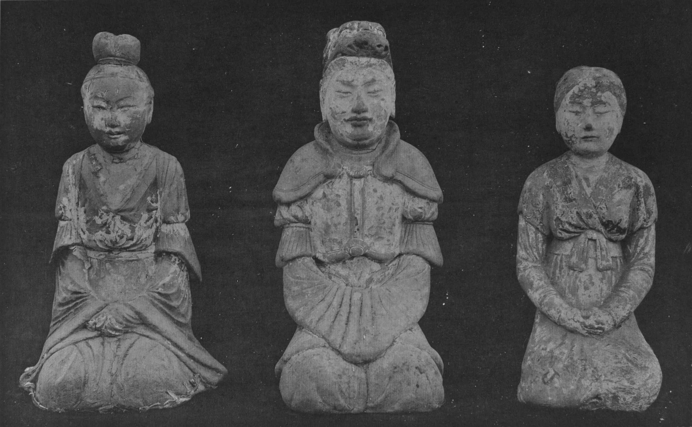 Pagoda, Hōryū-ji, Nara, Japan